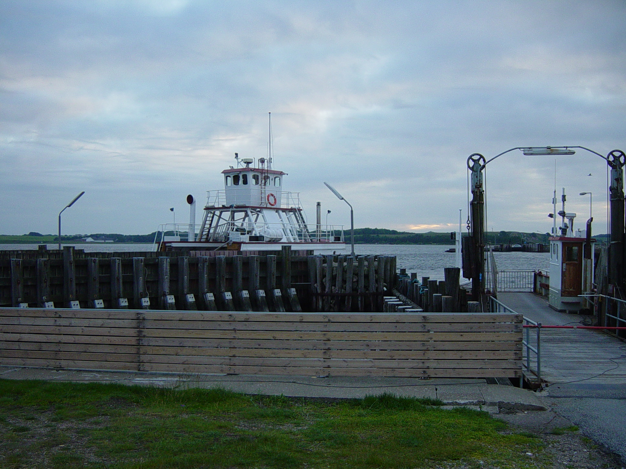 The ferry to Venoe in Denmark